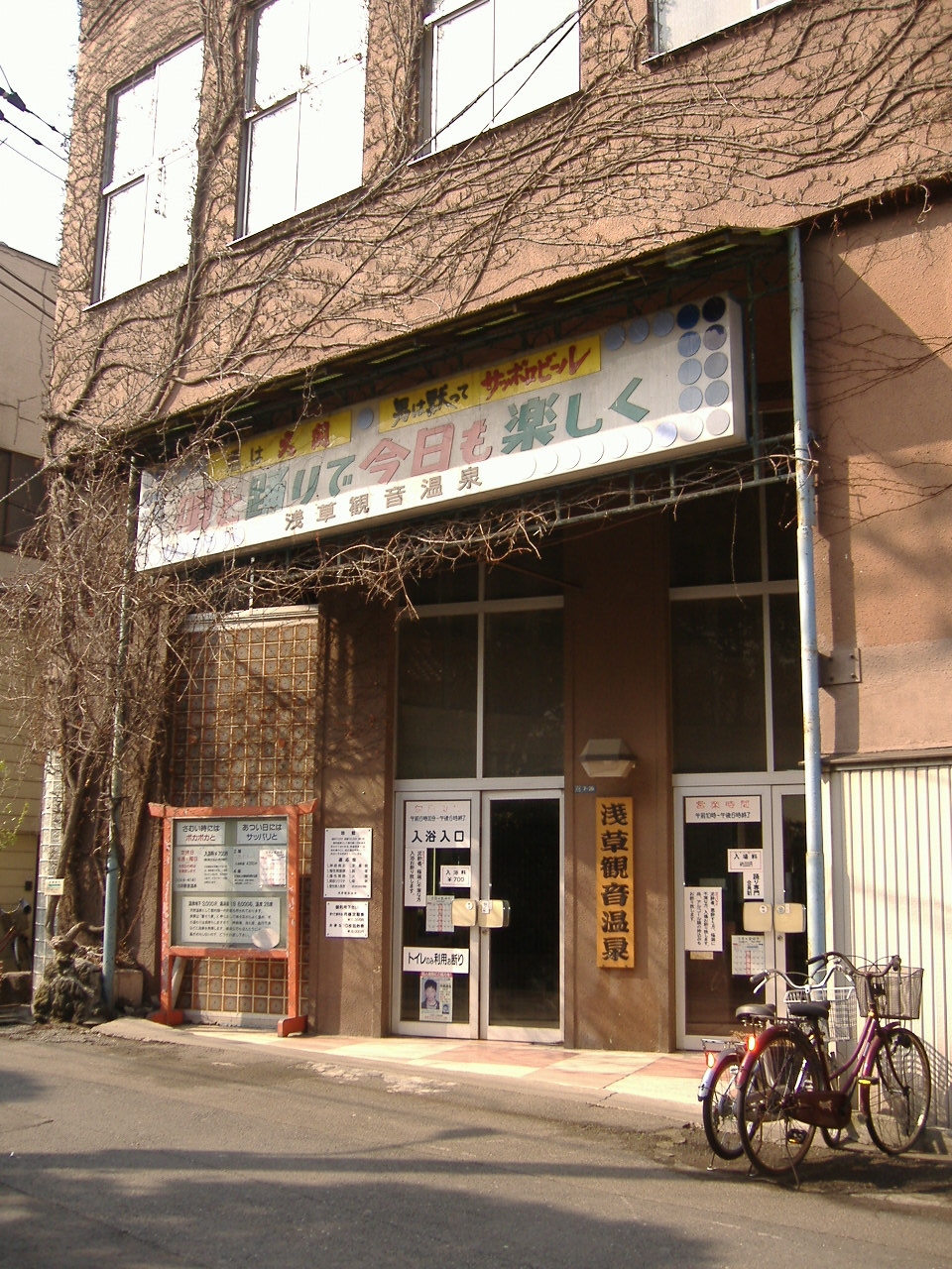 Asakusa-Kannon-Onsen (Tokyo, Japan)